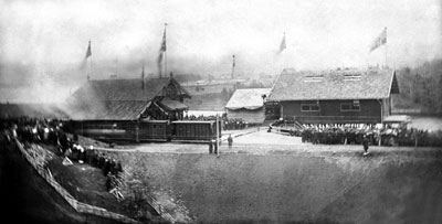 From the opening of the Norwegian railway Randsfjordbanen in 1868. Photo taken by Carl Abraham Pihl (1825–1897).